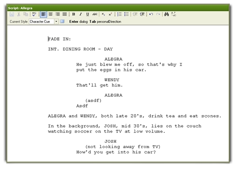 Screenshot of vScripter